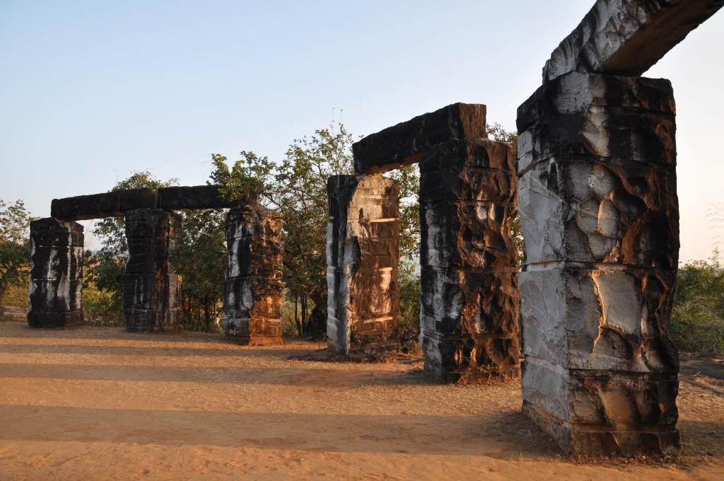 Kavishaila, Thirthahalli. ಕನ್ನಡ: ಕವಿಶೈಲ, ತೀರ್ಥಹಳ್ಳಿ.